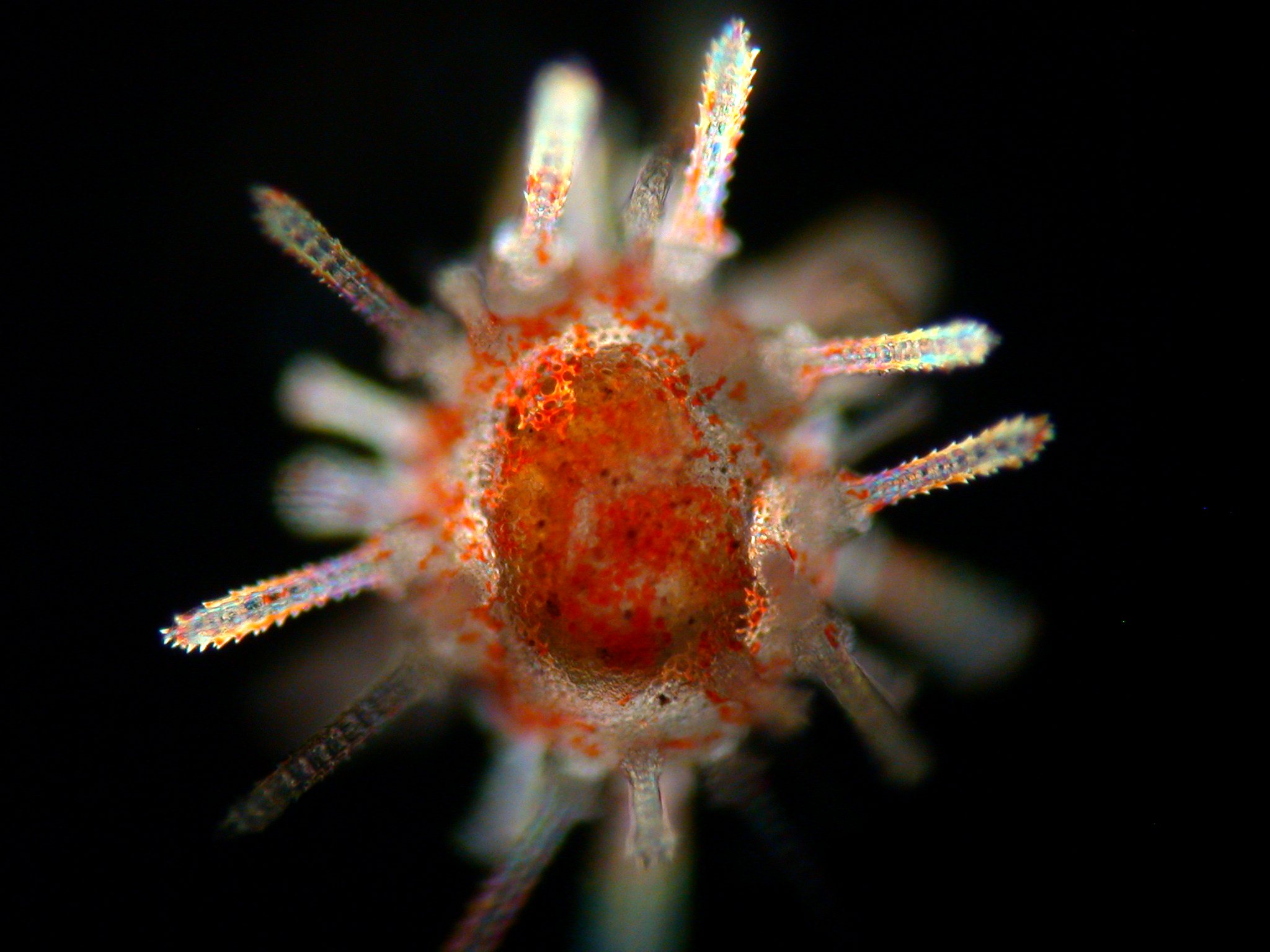 Juvenile of the sea biscuit Clypeaster subdepressus under polarized light microscopy.